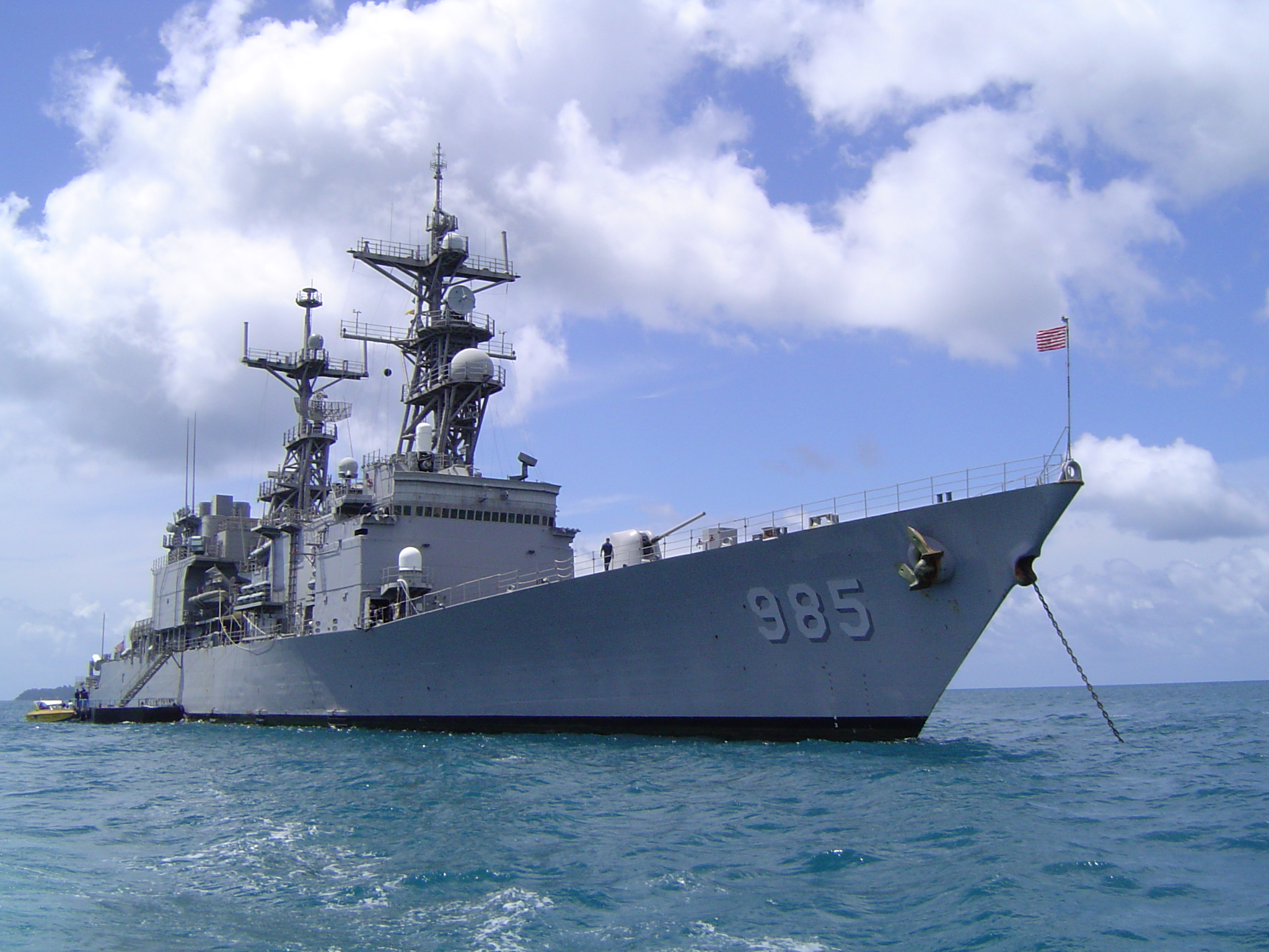 USS CUSHING (DD 985) anchored off of Phuket Island, Thailand in August 2004. This ship is still up and running with the US Naval Fleet off the coast of Africa. Cushing This ship till today is up and running with the US Naval Fleet.